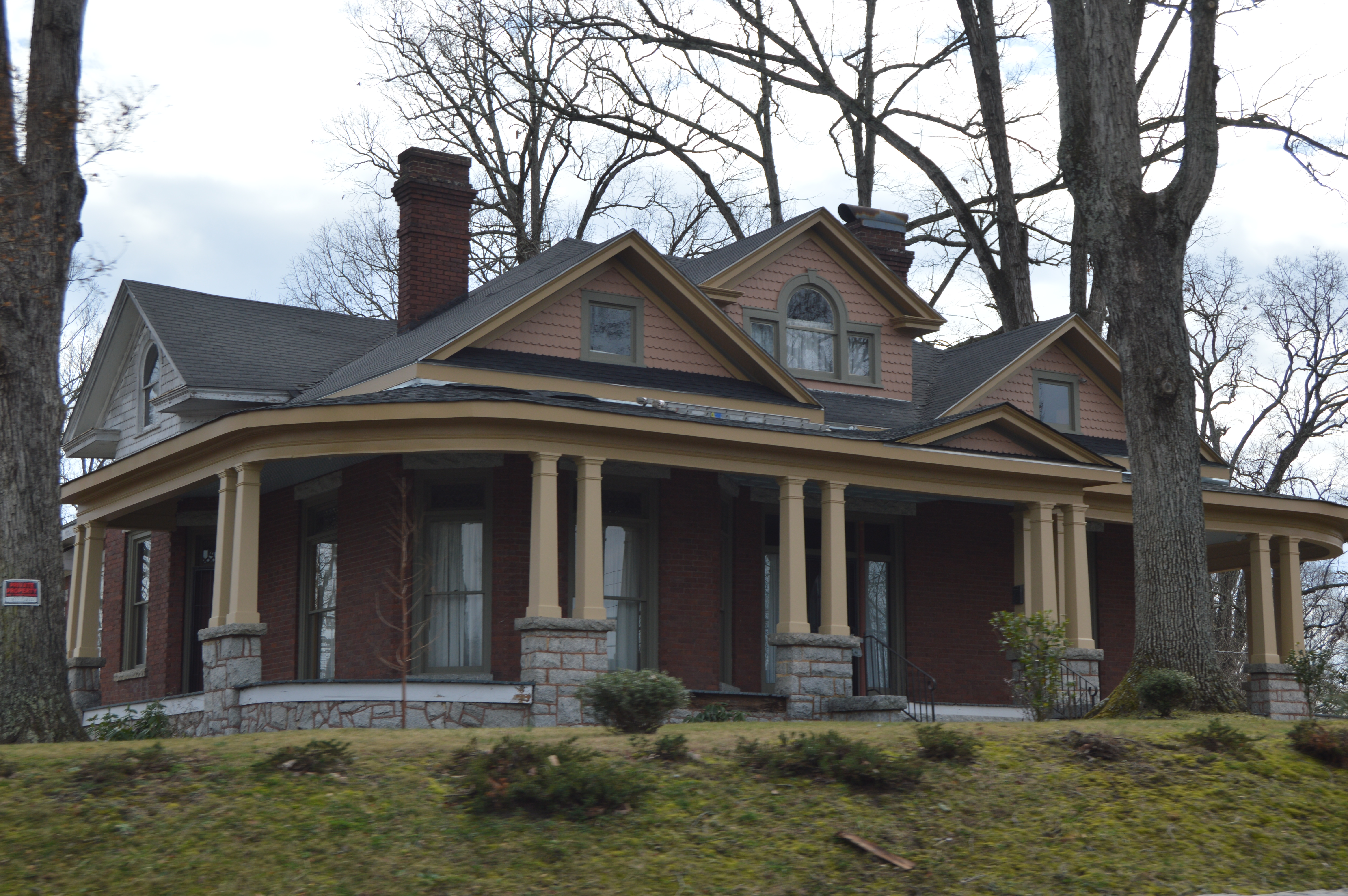 Front and northern side of the Edgar Harvey Hennis House, located at 1056 N. Main Street in Mount Airy, North Carolina, United States. Built in 1909, it is listed on the National Register of Historic Places.